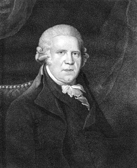 English organist and composer Edward Miller (1731 or 1735-1807). Stipple engraving by Thomas Hardy (1757-ca. 1805) after his own painting.